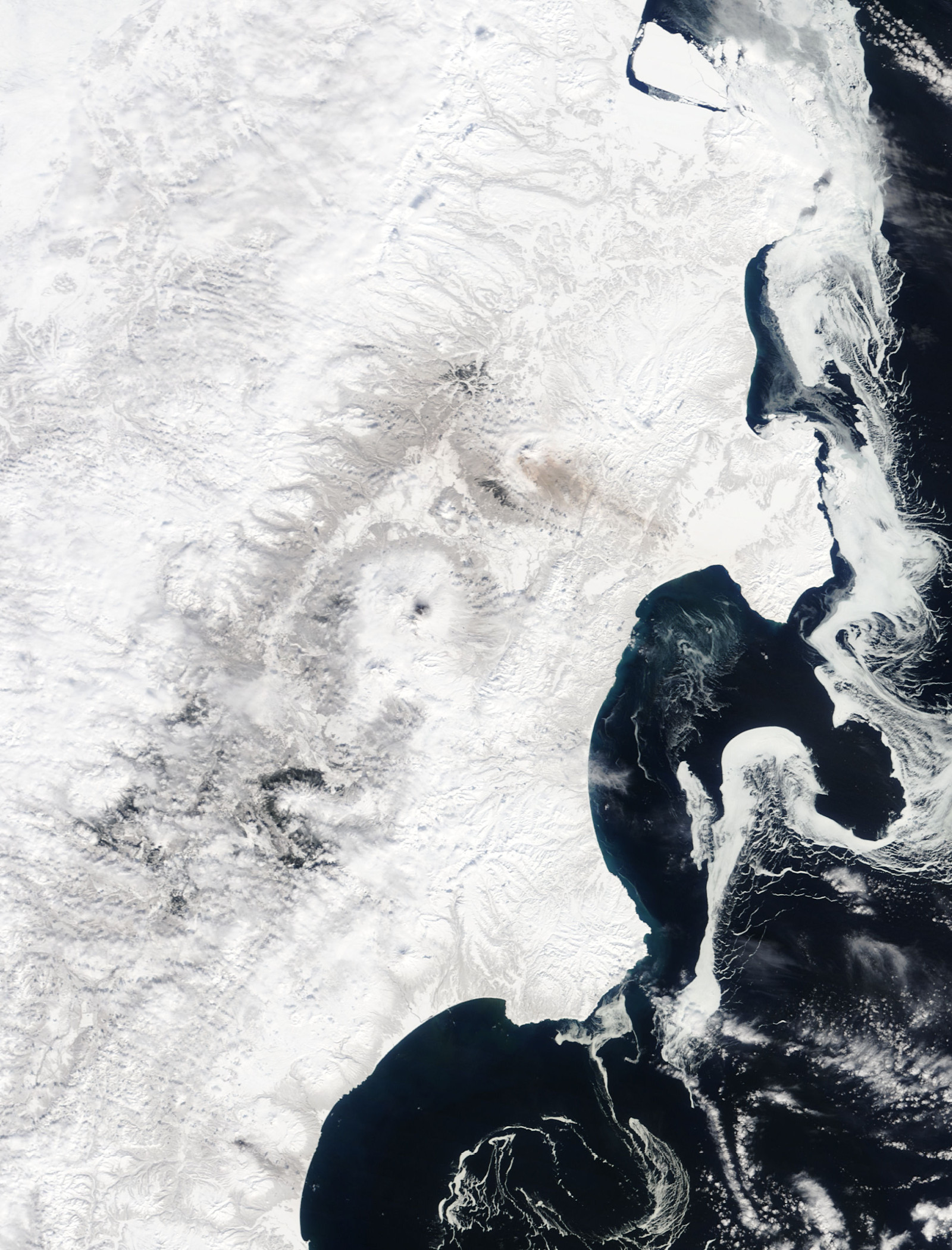 The resemblance between the sea ice and the coastline is most conspicuous around Kamchatskiy Poluostrov—a peninsula that extends eastward from the coast, curling toward the south like a knobby claw. Ice fills the bay inside this peninsula, and the land and ice combined span roughly 85 kilometres north to south. South of this peninsula floats a formation of sea ice. A lobe of especially thick ice in this formation mimics the inlet south-west of Kamchatskiy Poluostrov. Much of the ice in this lobe is likely composed of layers of relatively thin ice that have rafted, or stacked, into thick layers. Adjacent to this northward-projecting lobe, the sea ice retreats to the south, imitating the overall shape of the peninsula. Immediately east of the peninsula, sea ice floats close to the coastline. North of the peninsula, another formation of sea ice traces the shape of the coast, separated from shore by open water. The similarity between the eastern margin of the land and the western margin of the sea ice suggests that the ice formed along the shore and was later pushed away and slightly deformed by winds. Down-slope winds can be powerful along shorelines, and many of the volcanic peaks on the Kamchatka Peninsula, including Shiveluch and Klyuchevskaya, provide high points from which such winds can descend. Besides being steady and strong, down-slope winds are also cold, and the frigid wind over the ocean surface has helped form fresh sea ice in areas where older ice was blown out to sea. Newly forming ice is most obvious south-west of Kamchatskiy Poluostrov and east of Klyuchevskaya Volcano.